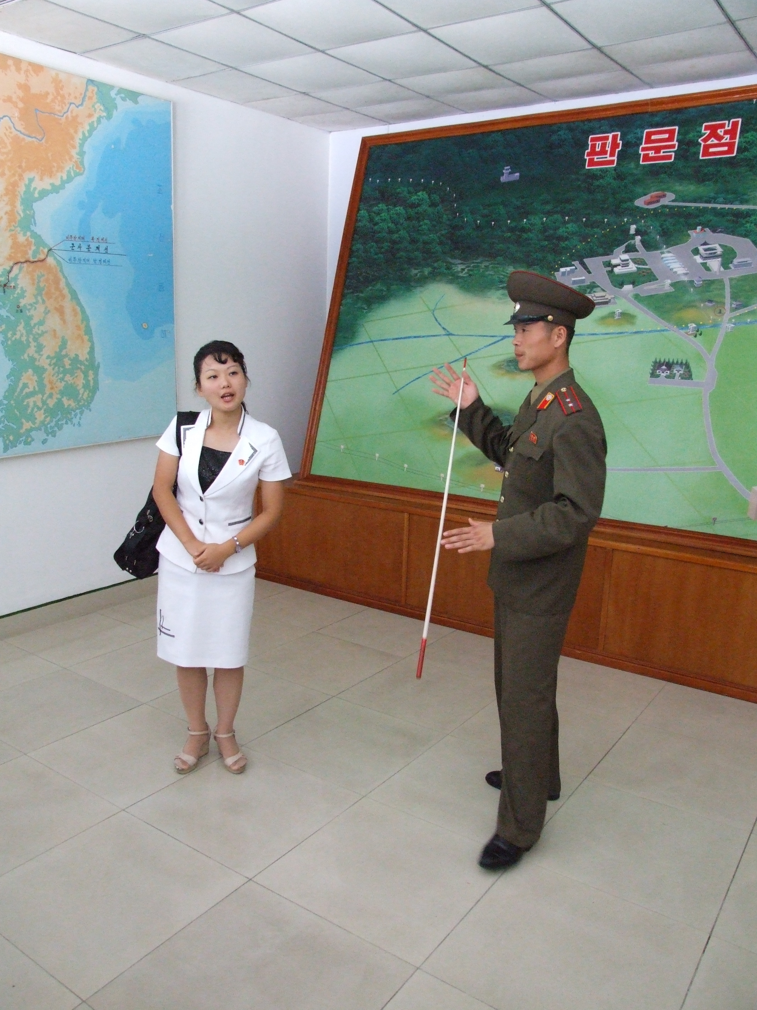 Demilitarized Zone of Korea